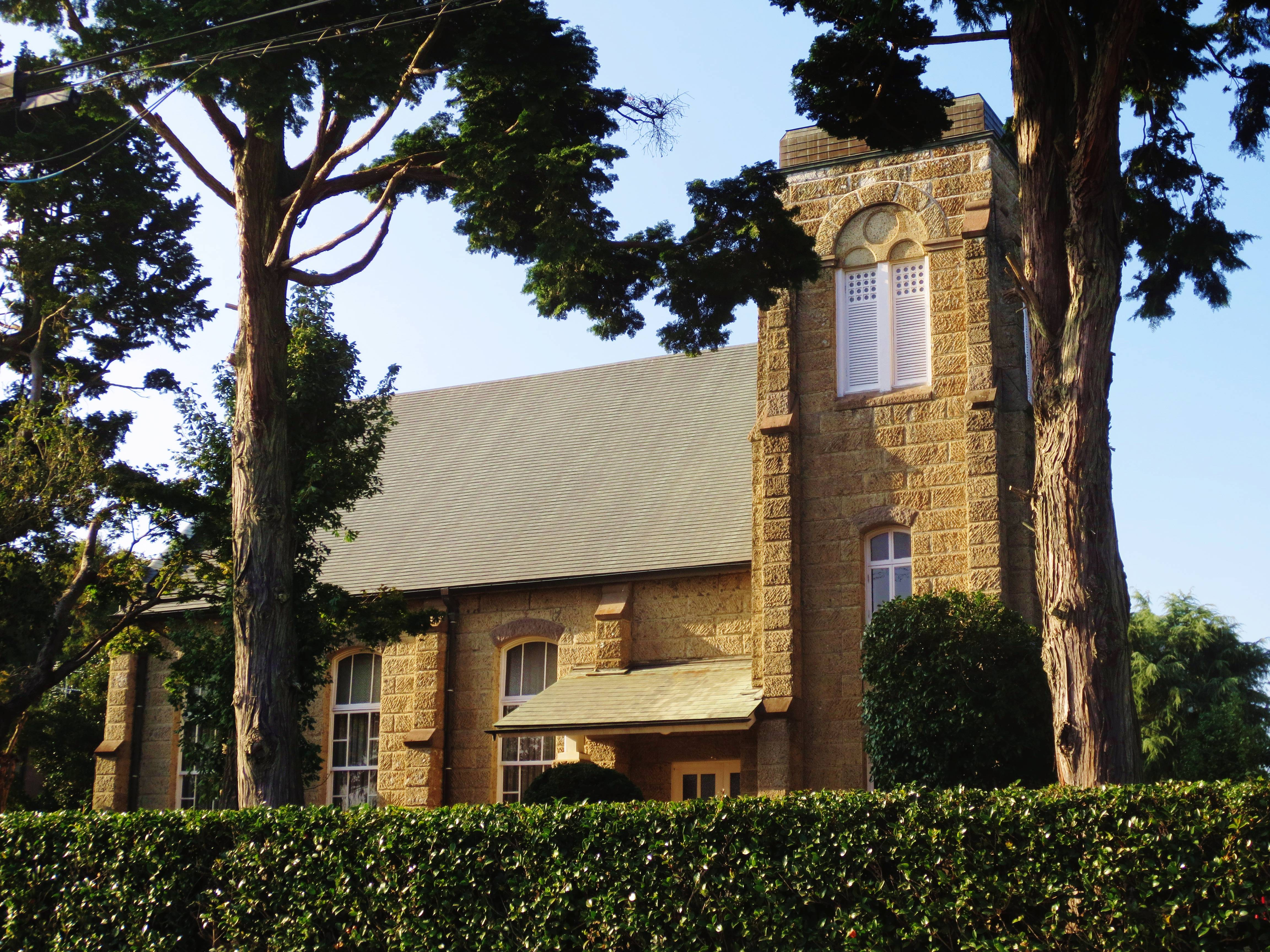 Annaka Church.